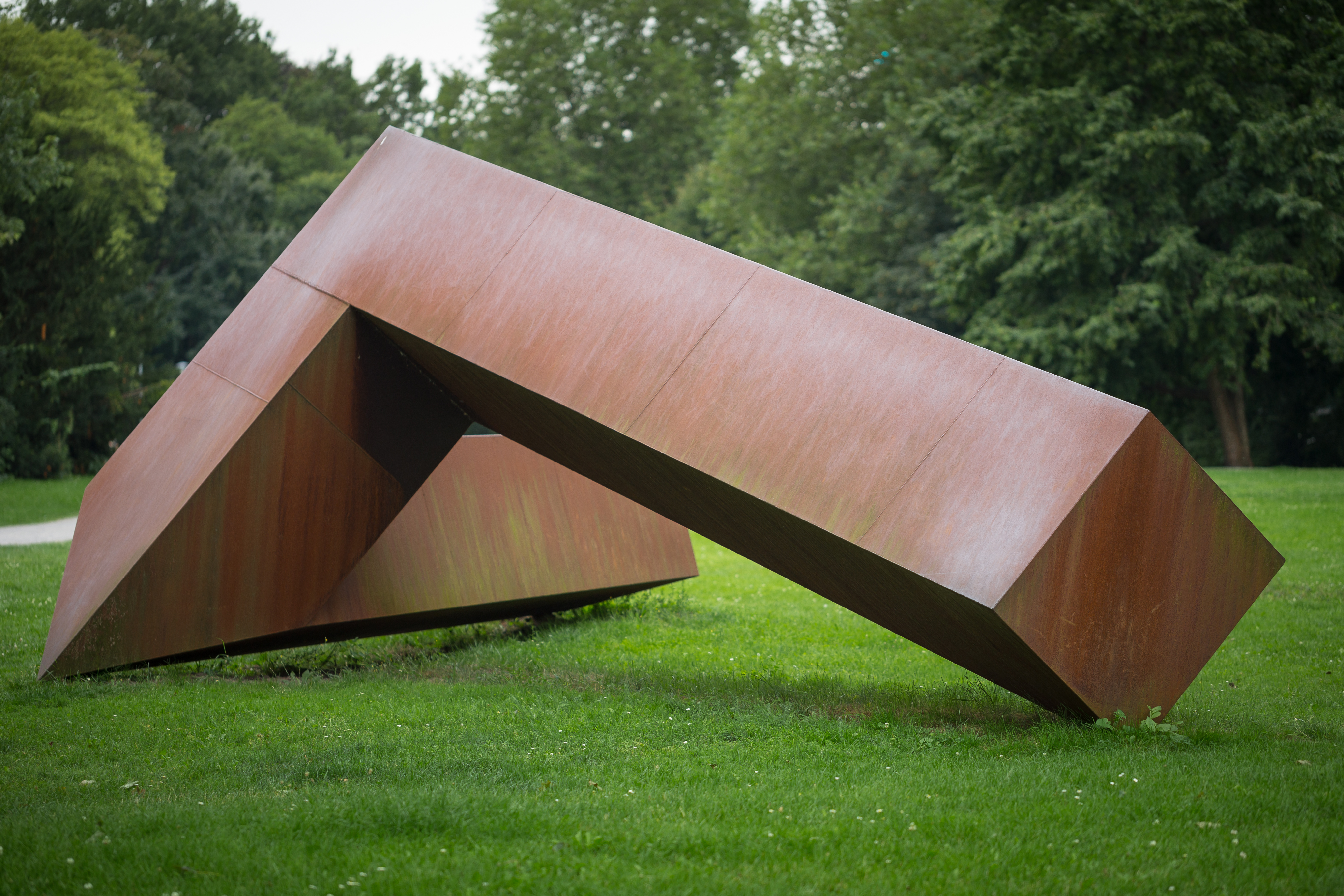 Sculpture "in between" by Hans Breder (*1921 in Herford) located at Friedrichswall (Maschpark garden) in Hanover, Germany. The sculpture is part of Hanover's sculpture walk.